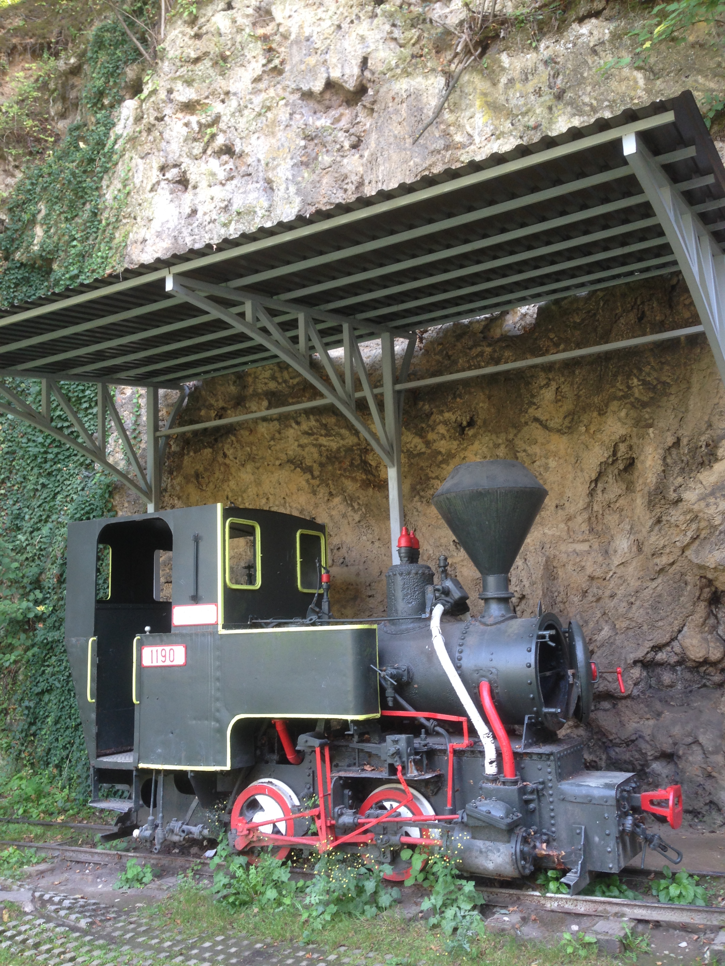 Jajce - partisans locomotive